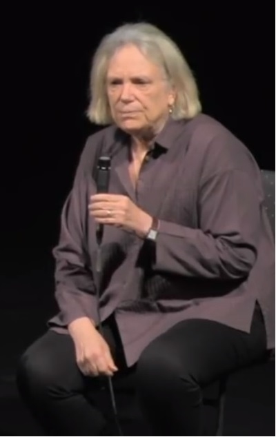 Conversation #4: Tadashi Suzuki in conversation with Anne Bogart Saturday, June 3: Anne Bogart is one of the three Co-Artistic Directors of SITI Company, which she founded with Japanese director Tadashi Suzuki in 1992. She is a Professor at Columbia University where she runs the Graduate Directing Program.